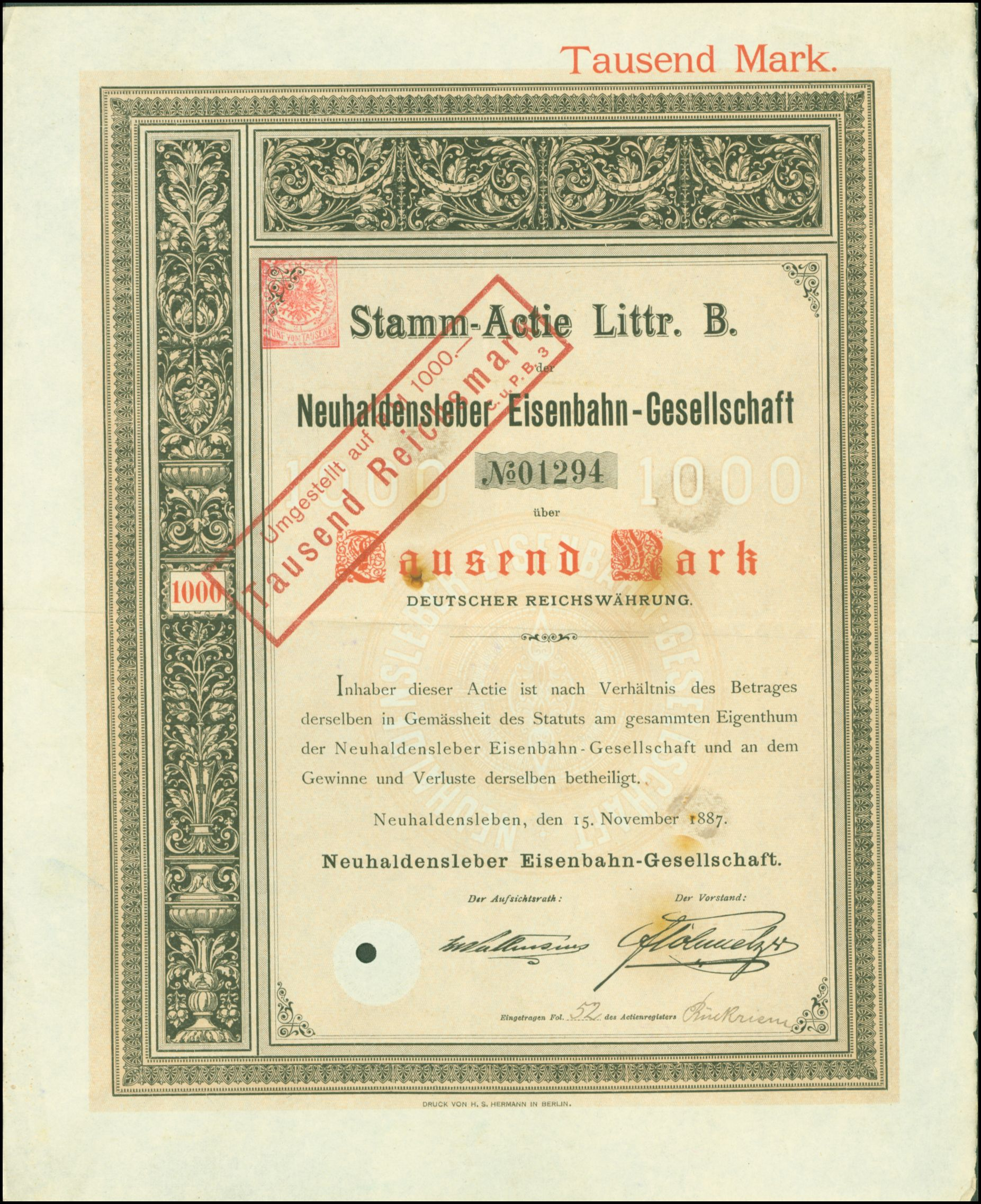 Share of the Neuhaldensleber Eisenbahn-Gesellschaft, issued 15. November 1887